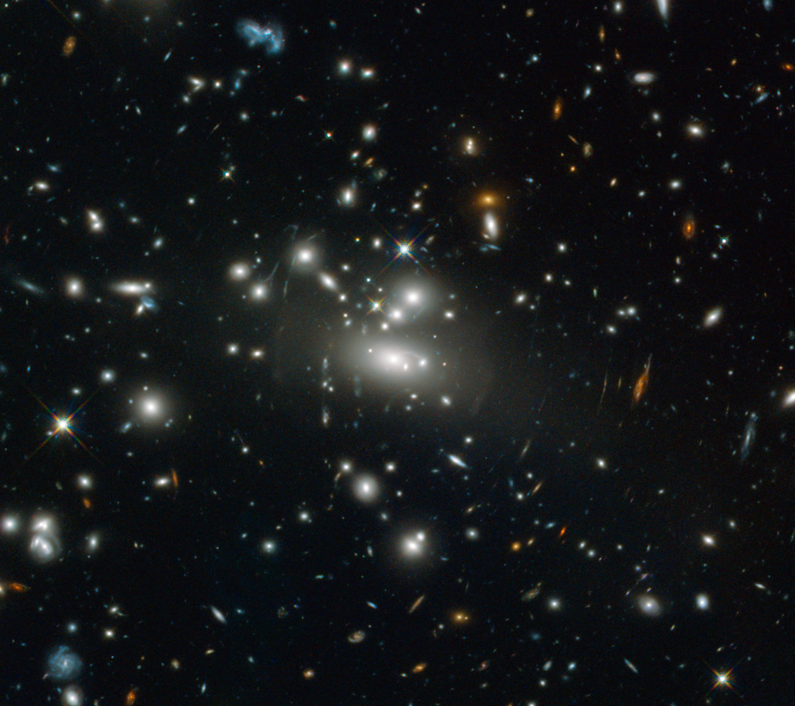 This Hubble image shows the galaxy cluster Abell S1077. Galaxy clusters are large groupings of galaxies, each of them including millions of stars. They are the largest existing structures in the Universe to be held together by their gravity. The amount of matter condensed in such groupings is so high that their gravity is enough to warp the fabric of spacetime, distorting the path that light takes when it travels through the cluster. In some cases, this phenomenon produces an effect somewhat like a magnifying lens, allowing us to see objects that are aligned behind the cluster and which would otherwise be undetectable from Earth. In this image, you see stretched stripes that look like scratches on a lens but are, in fact, galaxies whose light is heavily distorted by the gravitational field of the cluster. Astronomers use tools like the NASA/ESA Hubble Space Telescope and the effects of gravitational lensing to peer far back in time and space to see the furthest objects located in the early Universe. One of the record holders is MACS0647-JD, a galaxy seen by Hubble and the Spitzer Space Telescope with the help of a gravitational lens much like this one in the galaxy cluster MACS J0647.7+7015. Its light has taken 13.3 billion years to reach us. This image is based in part on data spotted by Nick Rose in the Hubble’s Hidden Treasures image processing competition.